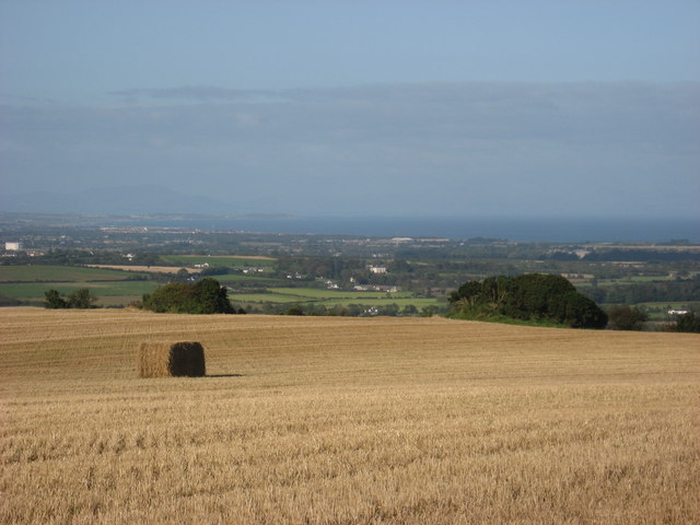 Knockbrack mounds, Co. Dublin The siting of the mounds on the brow of a hill gives extensive views over the coastal plain of north Co. Dublin and east Co. Meath to Clogher Head in Co. Louth. Knockbrack translates as 'speckled hill'.